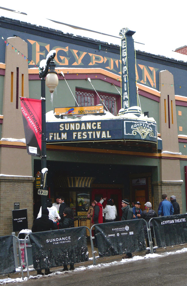 Egyptian Theatre during the Sundance Film Festival 2010